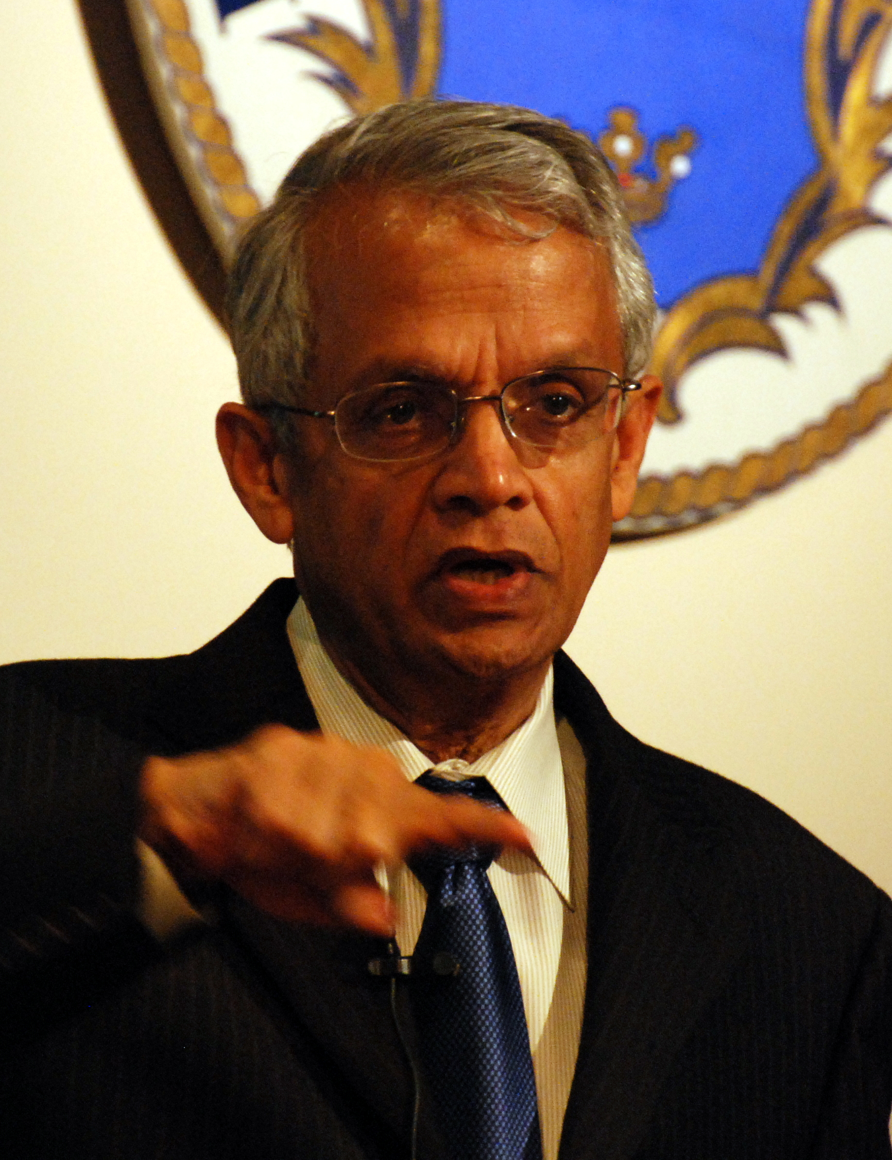 Veerabhadran Ramanathan during a talk at the Royal Swedish Academy of Sciences